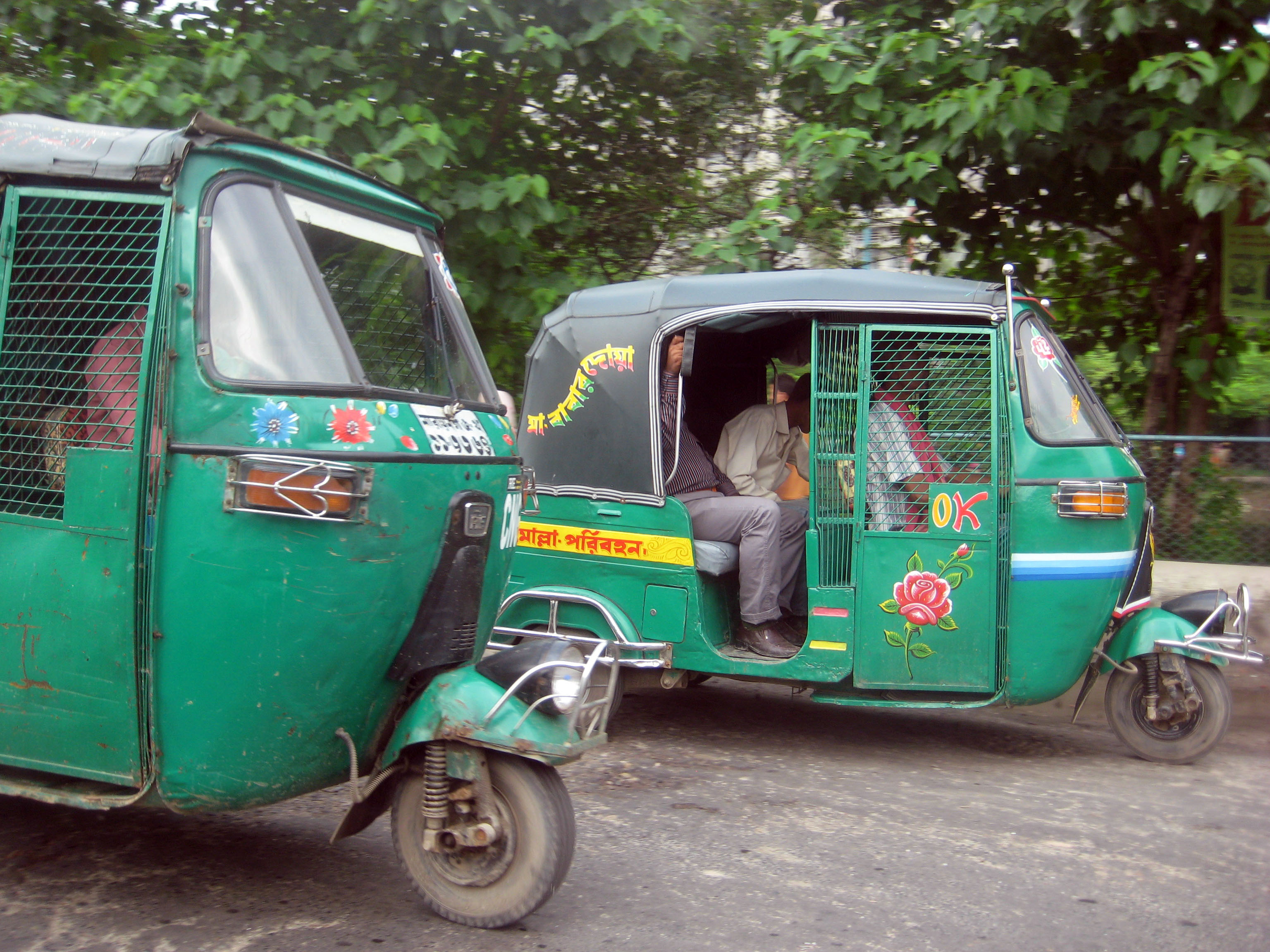 CNG scooters in Dhaka